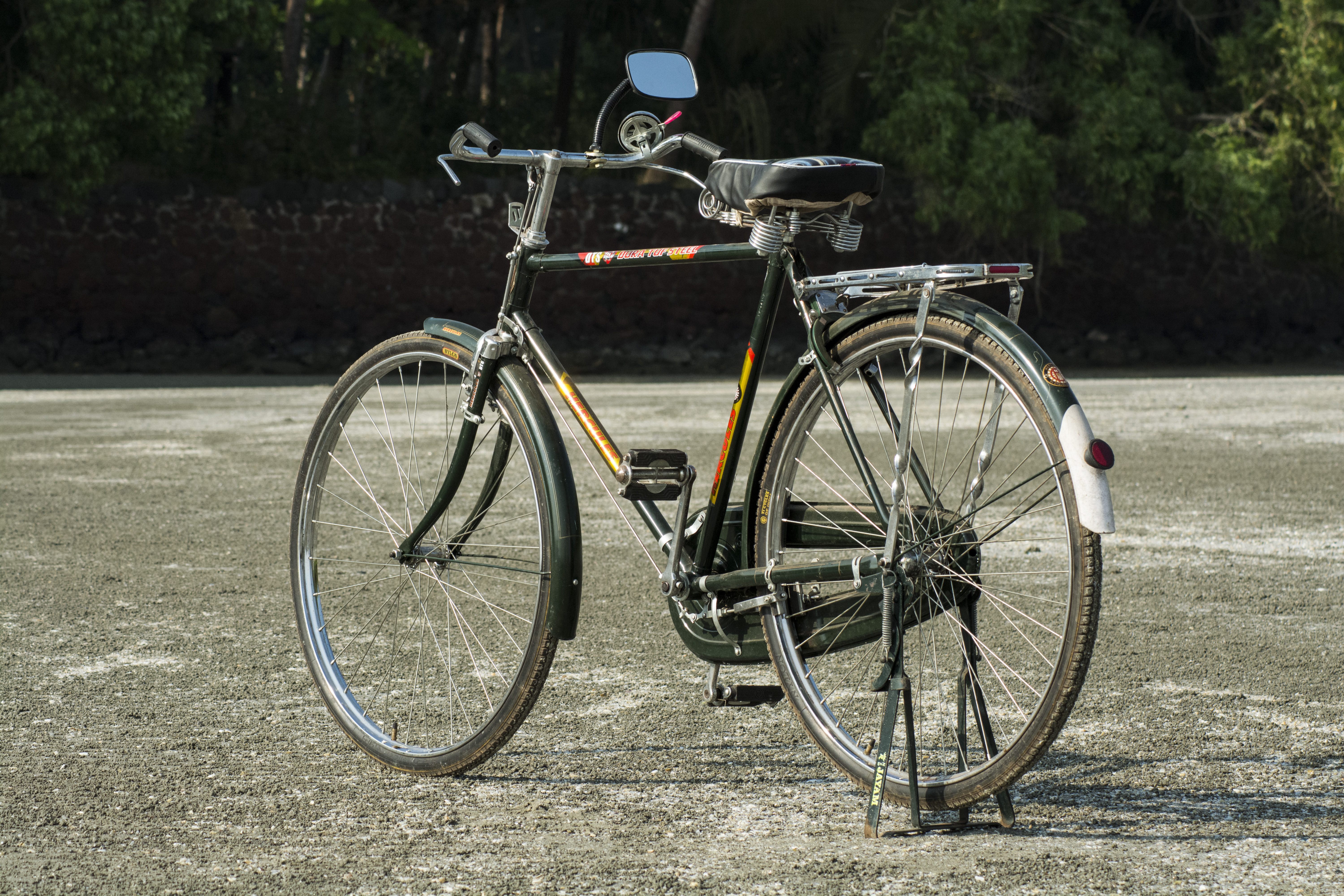 Bicycle is a commonly used two wheeler